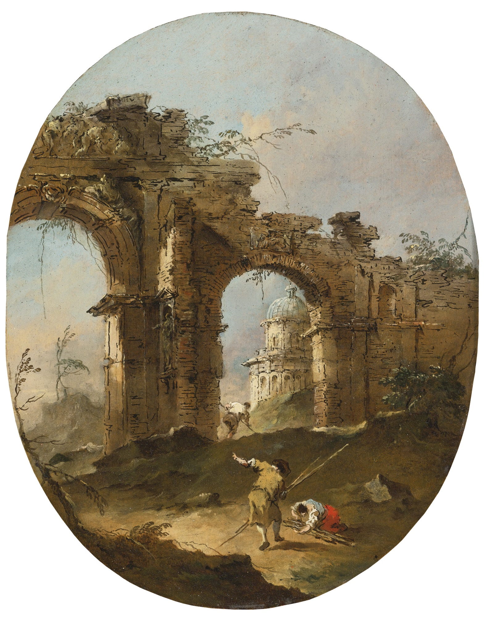 An Architectural Capriccio With Figures By A Ruined Arch